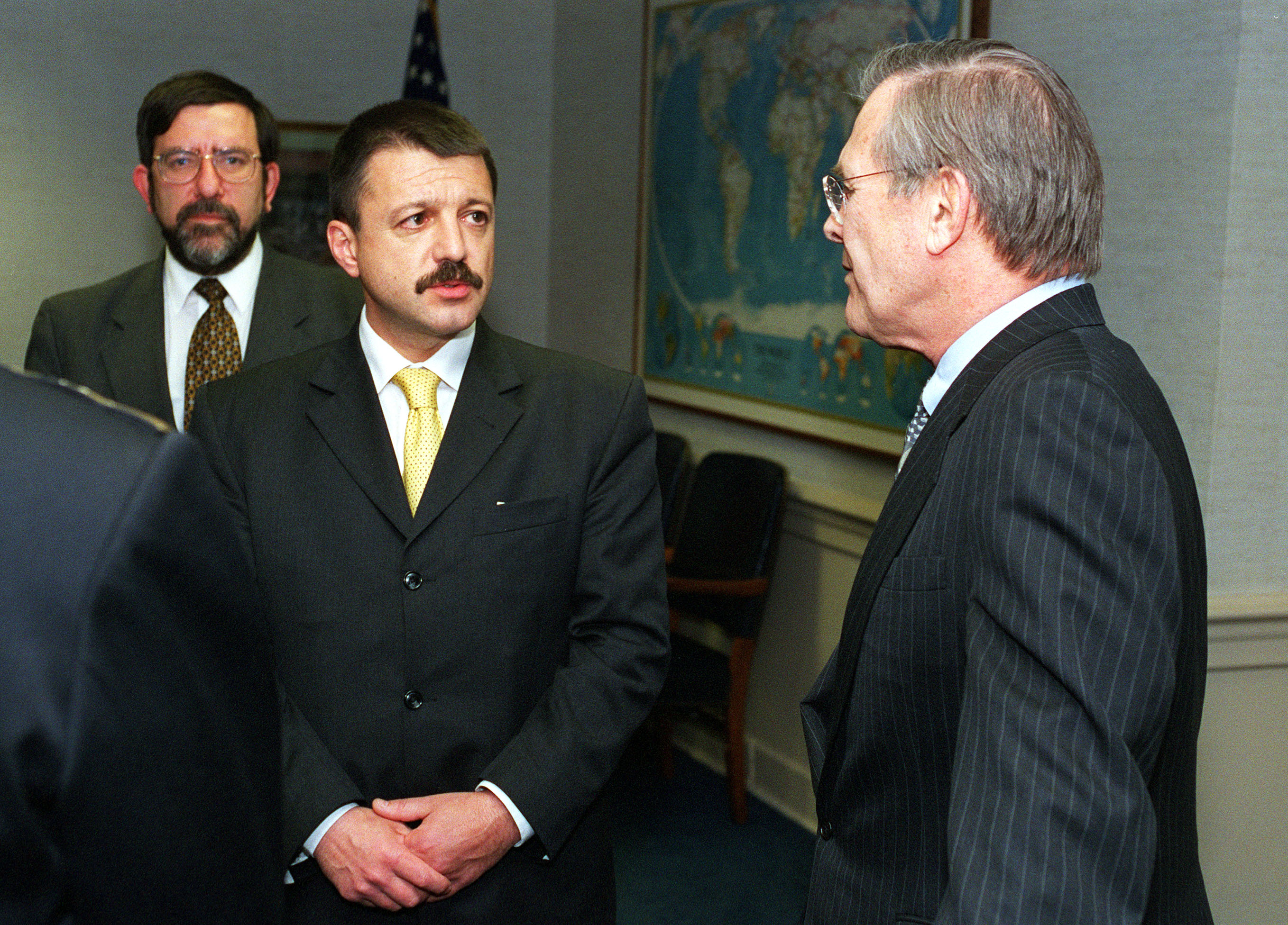 Secretary of Defense Donald H. Rumsfeld (right) talks with Bulgarian Minister of Defense Boyko Noev (center) during bilateral security talks at the Pentagon on March 26, 2001. Bulgarian Ambassador to the United States Phillip Dimitrov joined Rumsfeld and Noev in the discussion.